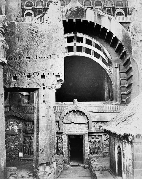 Karla Great Chaitya front view